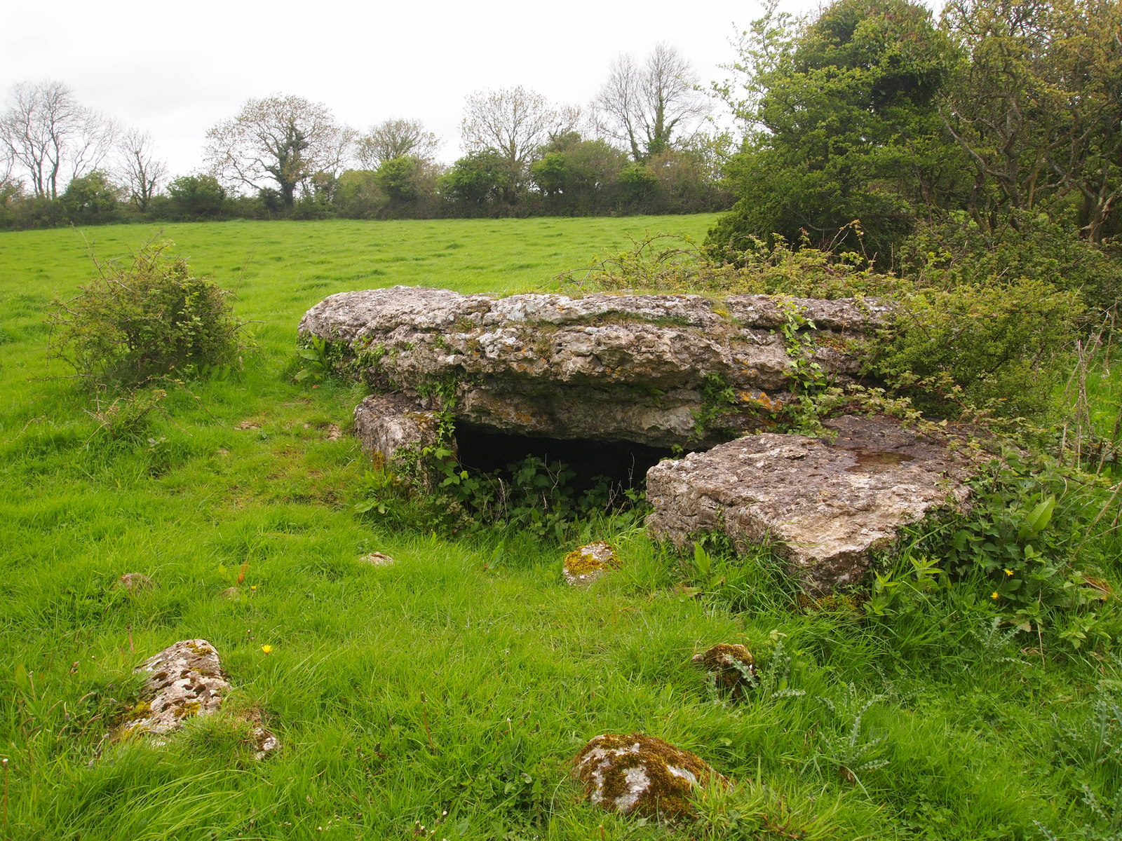 Glyn Burial ChamberA Neolithic Tomb similar in construction to that at Lligwy and another possible site in Benllech. The chamber is thought to be constructed by raising the main slab that was already there onto the smaller slab in front, then excavating underneath and inserting support stones on the north and south sides of the excavation. The chamber was excavated in the nineteenth century and it was recorded that bone and other (non-specified) artifacts were found.